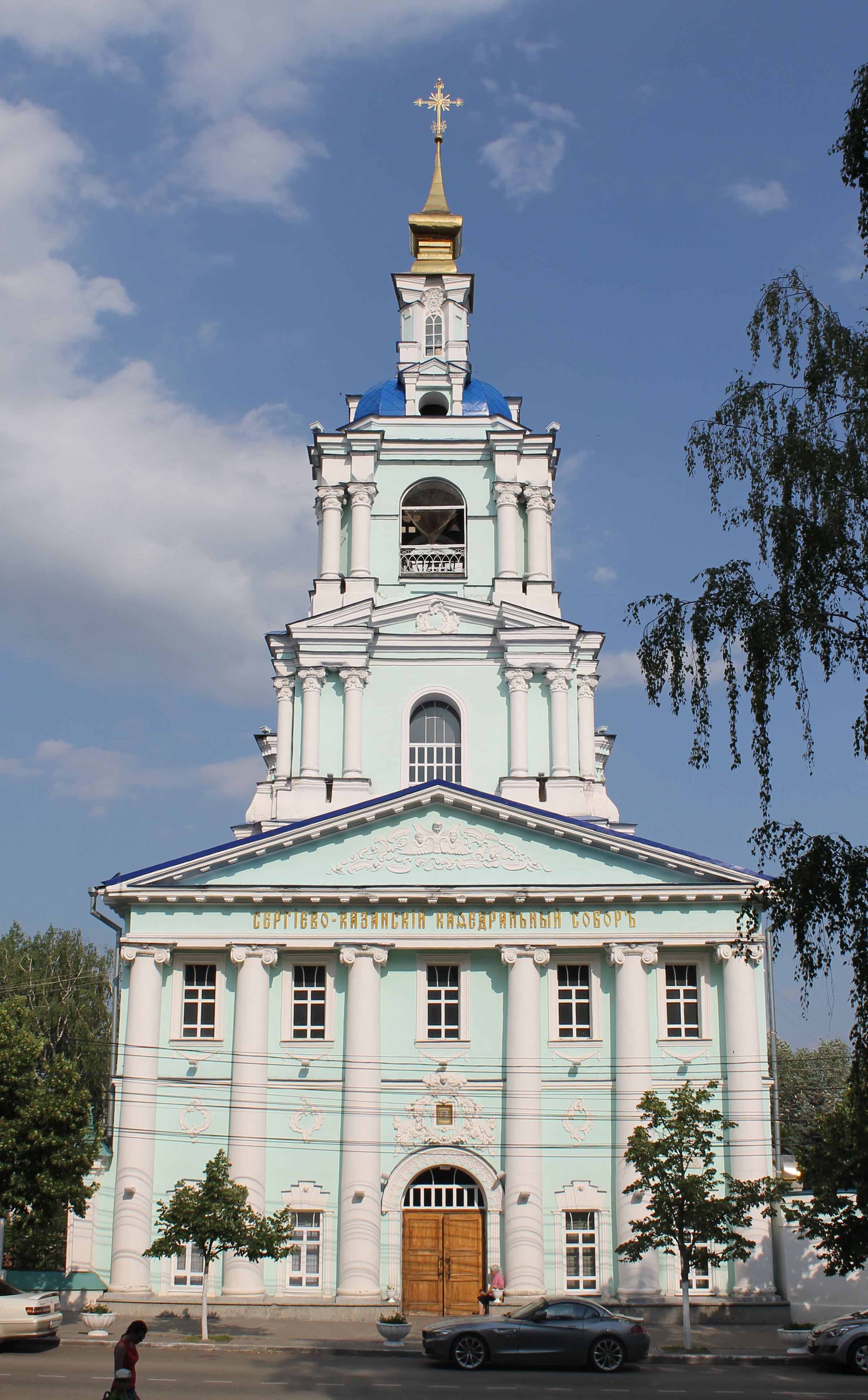 Cathedral of the Theotokos of Kazan and Saint Sergius of Radonezh